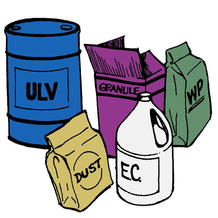 Drum, bottles and packs of pesticides